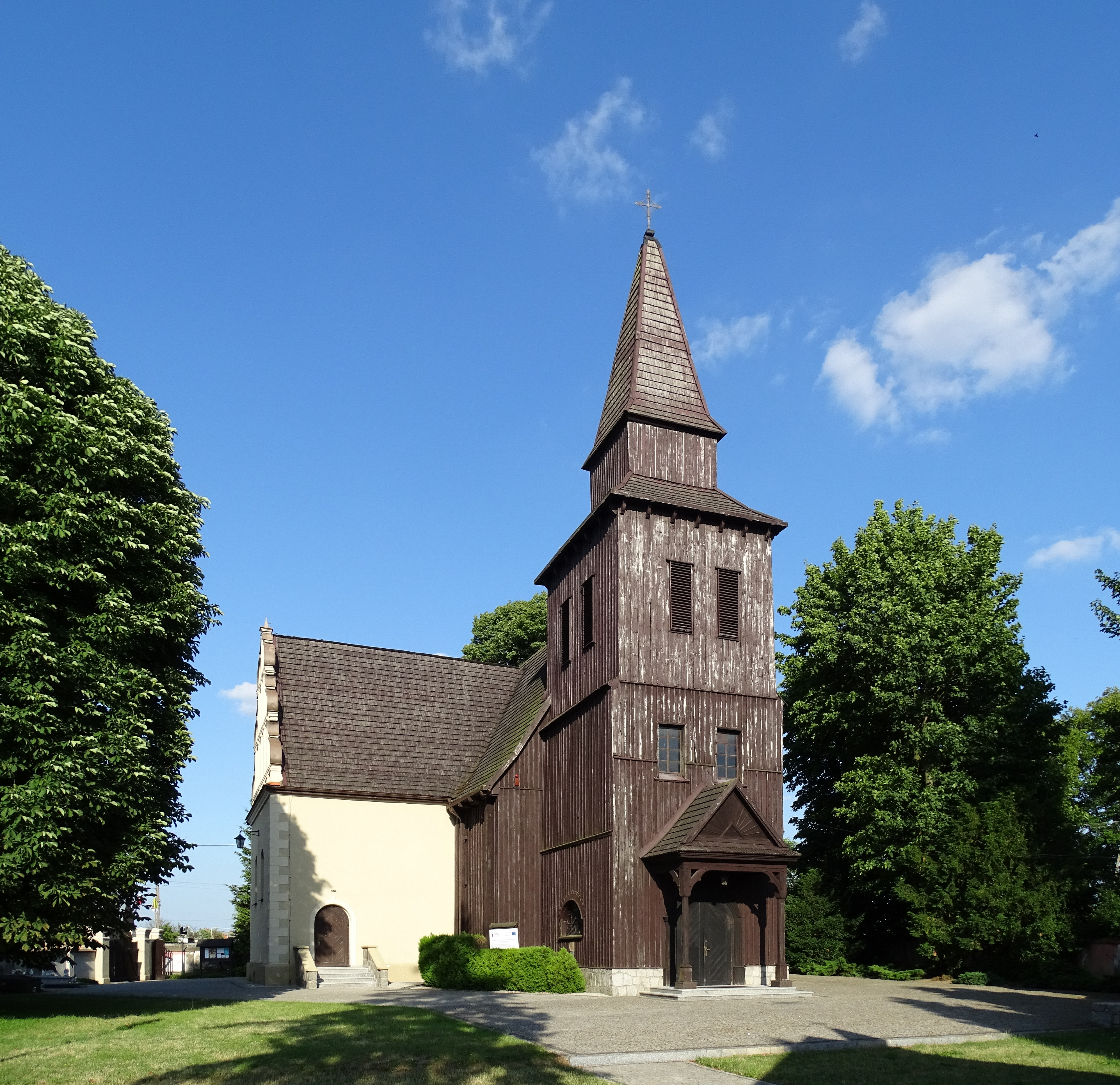 Zakrzewo, Rawicz County, Poland. Parish church of Saint Clement from 1610.